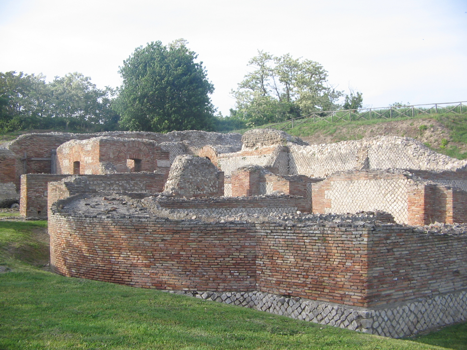 Side view of the thermae, in the archaeological park of the Ancient Roman town of Aeclanum. The opus reticulatum brickwork is shown in the picture